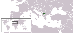 Location map of the Republic of Macedonia.